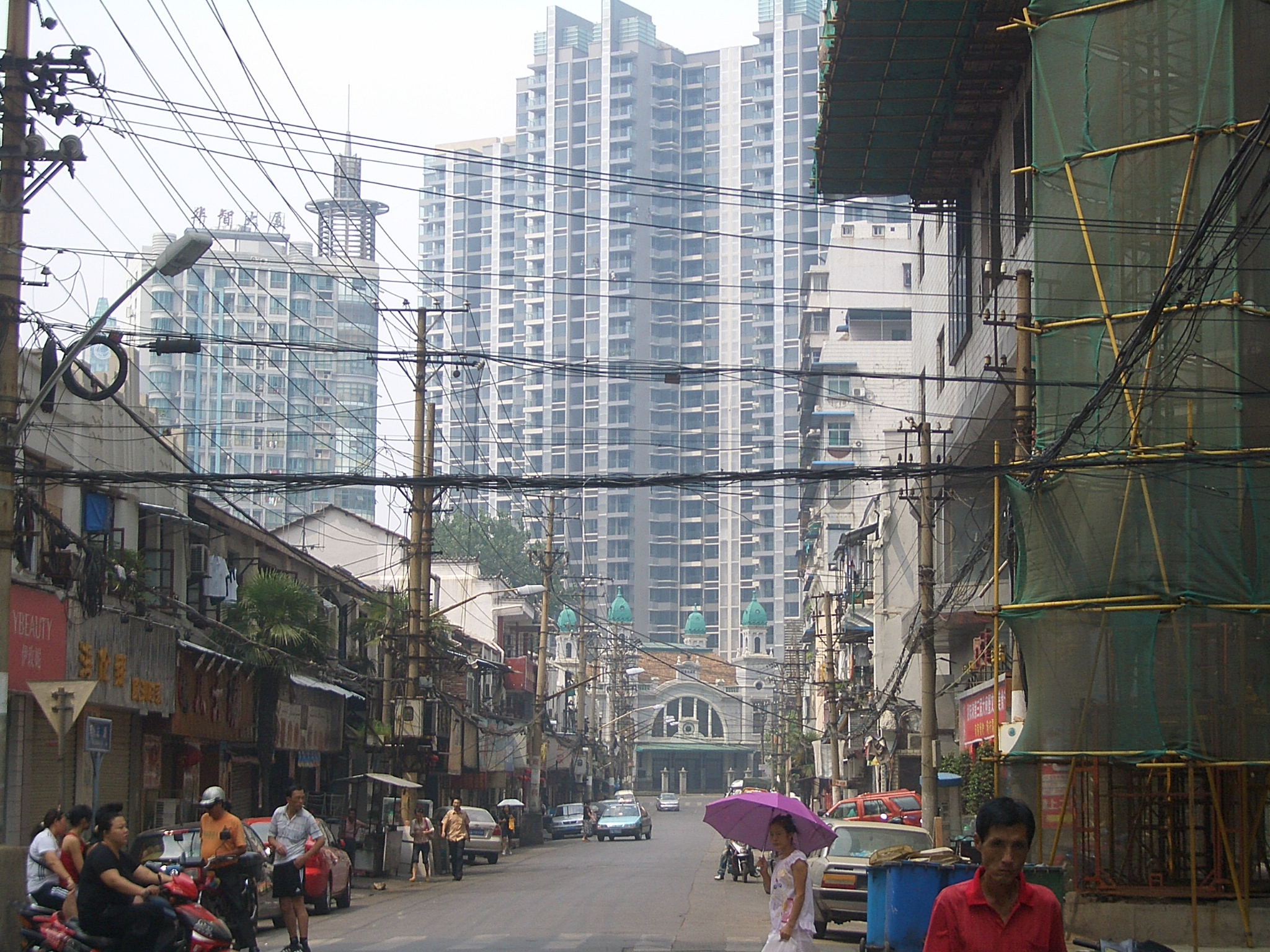 Chezhan Lu (Station Street) in the old Hankou city center (Wuhan). The old Dazhimen Station is seen at the end of the street.